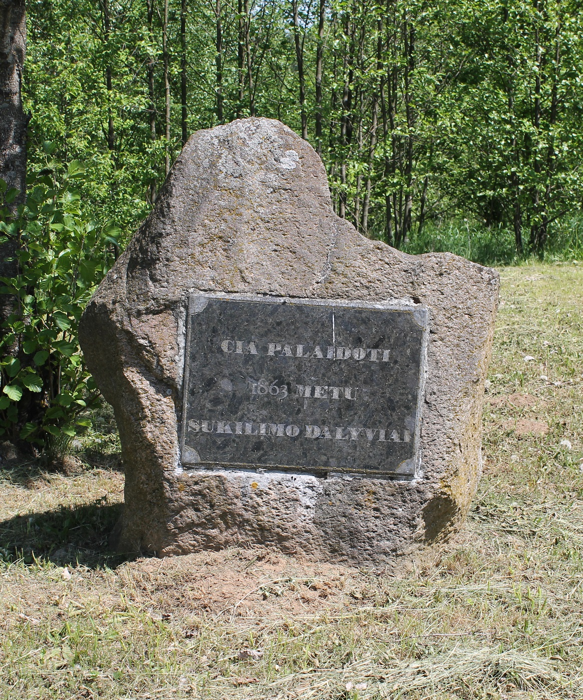 Stračiūnai cemetery, Druskininkai Municipality, Lithuania